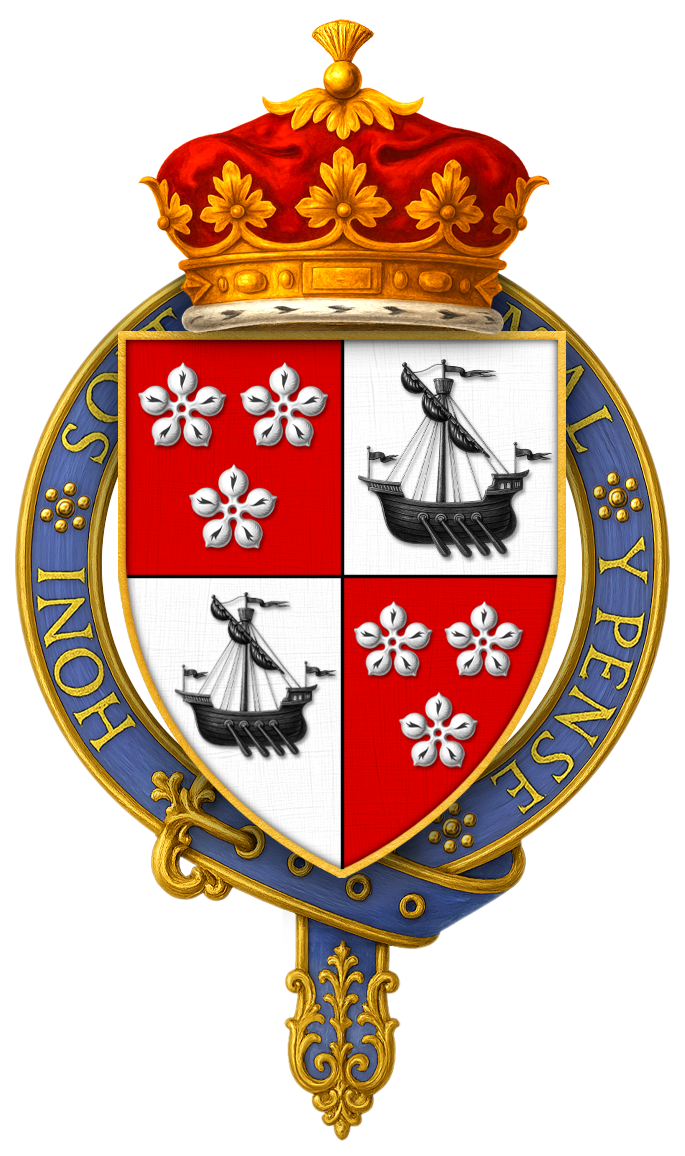 Garter encircled arms of James Hamilton, 1nd Duke of Abercorn, KG, as displayed on his Order of the Garter stall plate in St. George's Chapel.